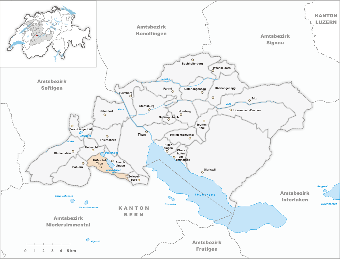 Municipality Höfen bei Thun